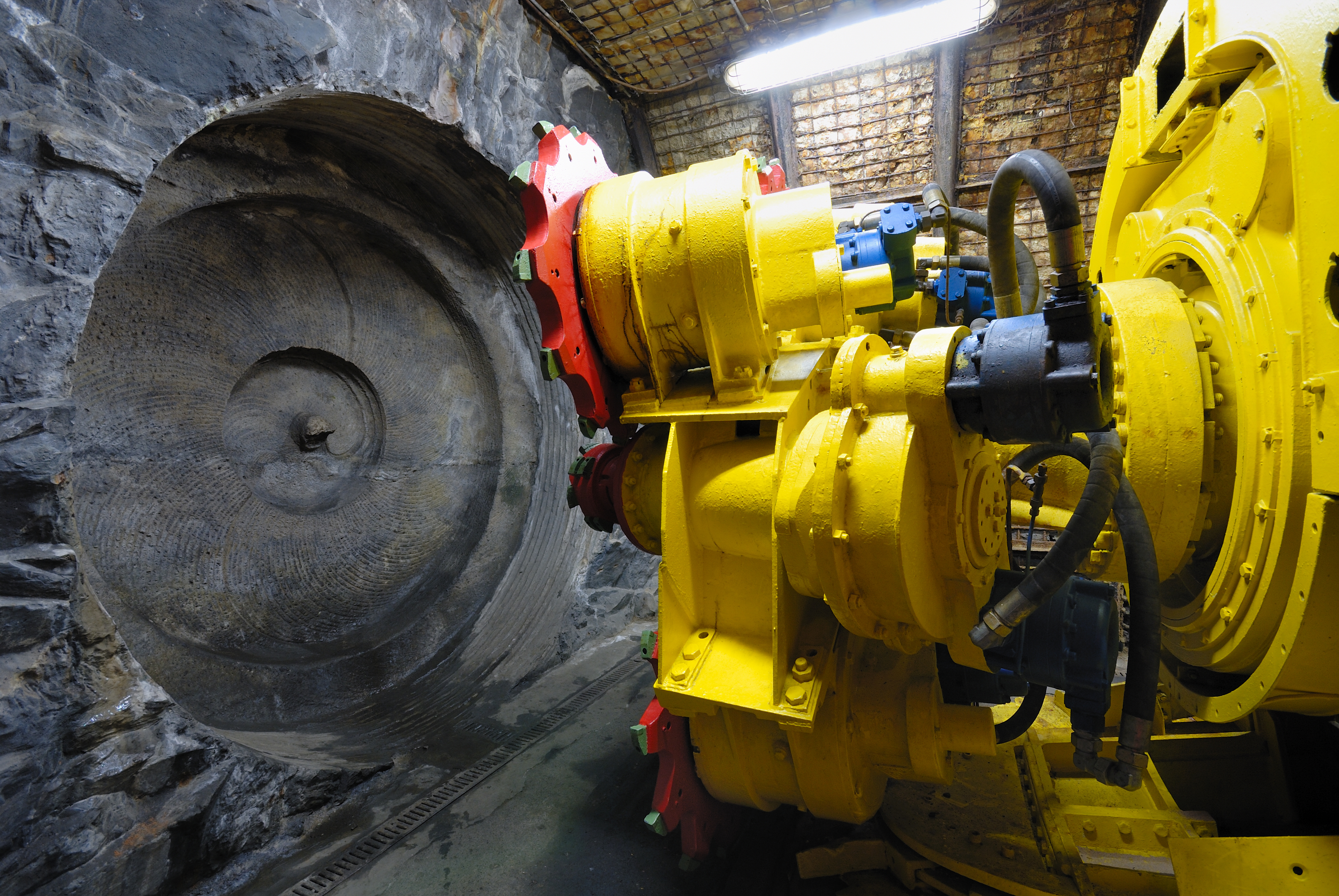 Tunnel boring machine KTF 280 in the German Mining Museum, Bochum.